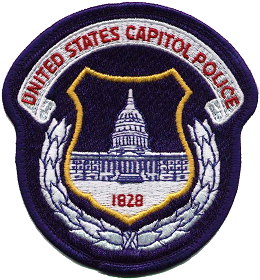 United States Capitol Police (USCP) arm patch, worn on USCP uniforms.